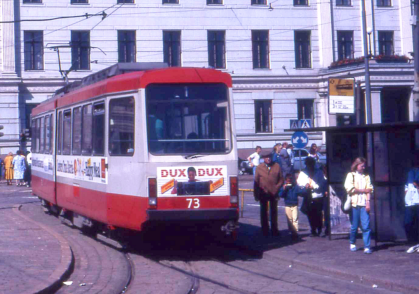 Helsinki City Transport NrII class tram number 73 on line 1 in Helsinki Market Square in 1987